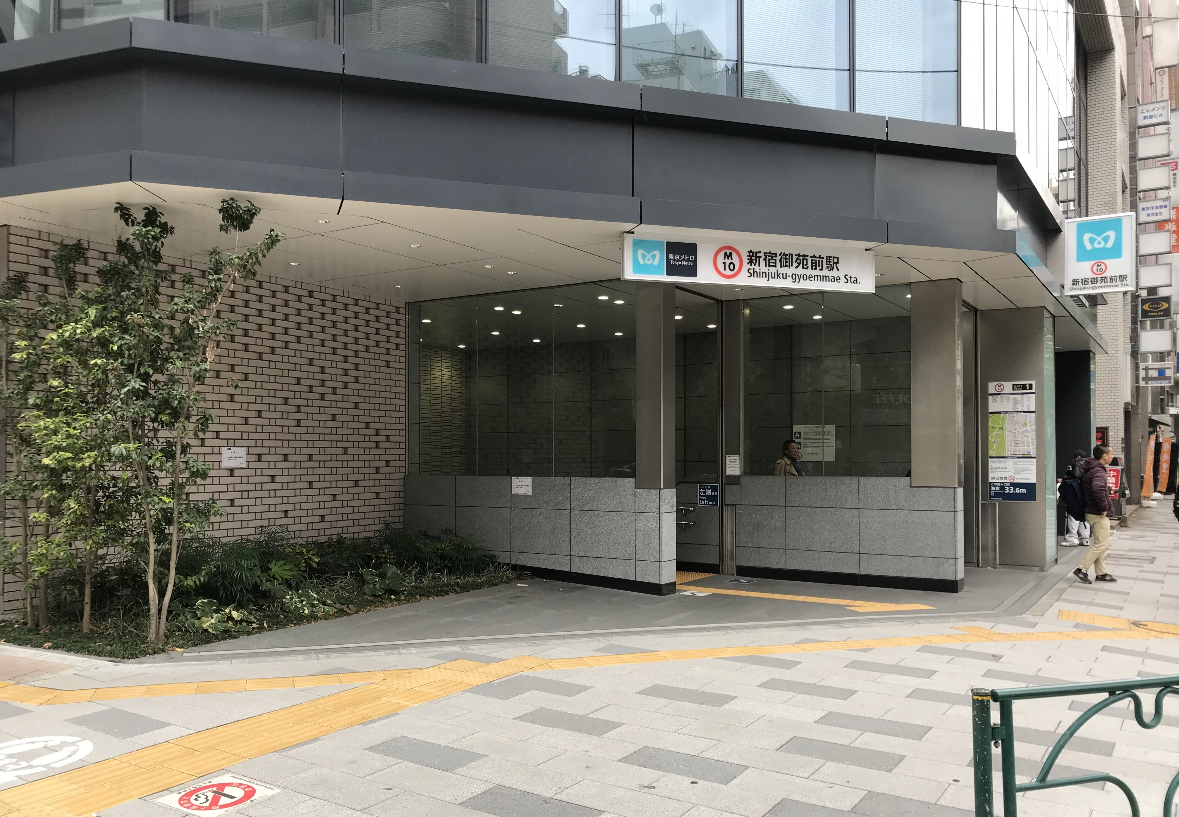 Exit 1 of Shinjuku-gyoemmae Station on the Tokyo Metro Marunouchi Line.